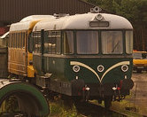 Among the stock visible here is one of two railbuses built in 1958 by Waggon und Maschinenbau now on the North Norfolk Railway, behind which is the experimental railbus built in 1978, LEV1 ( see LEV1 crossing Coldhams Common for background and LEV1 at Weybourne, for a photo here at Weybourne.